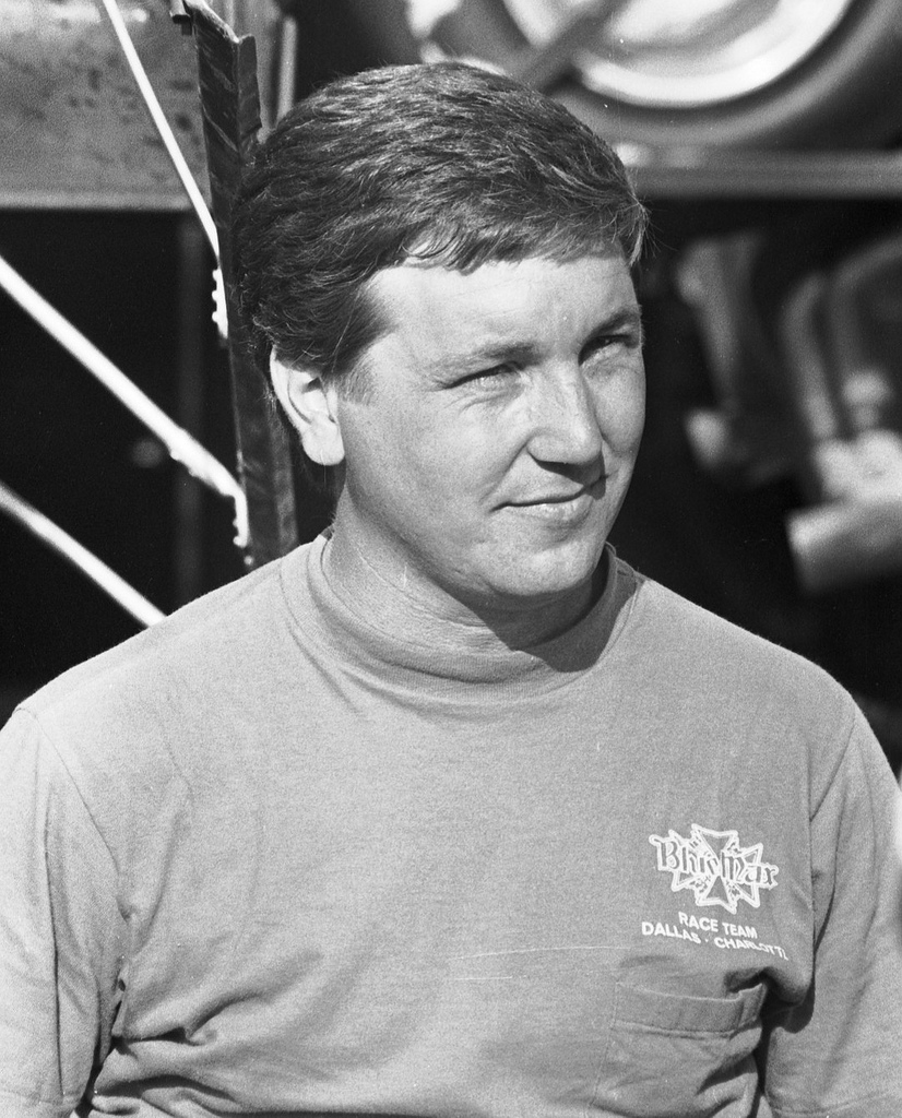 Sammy Swindell in the 1980's